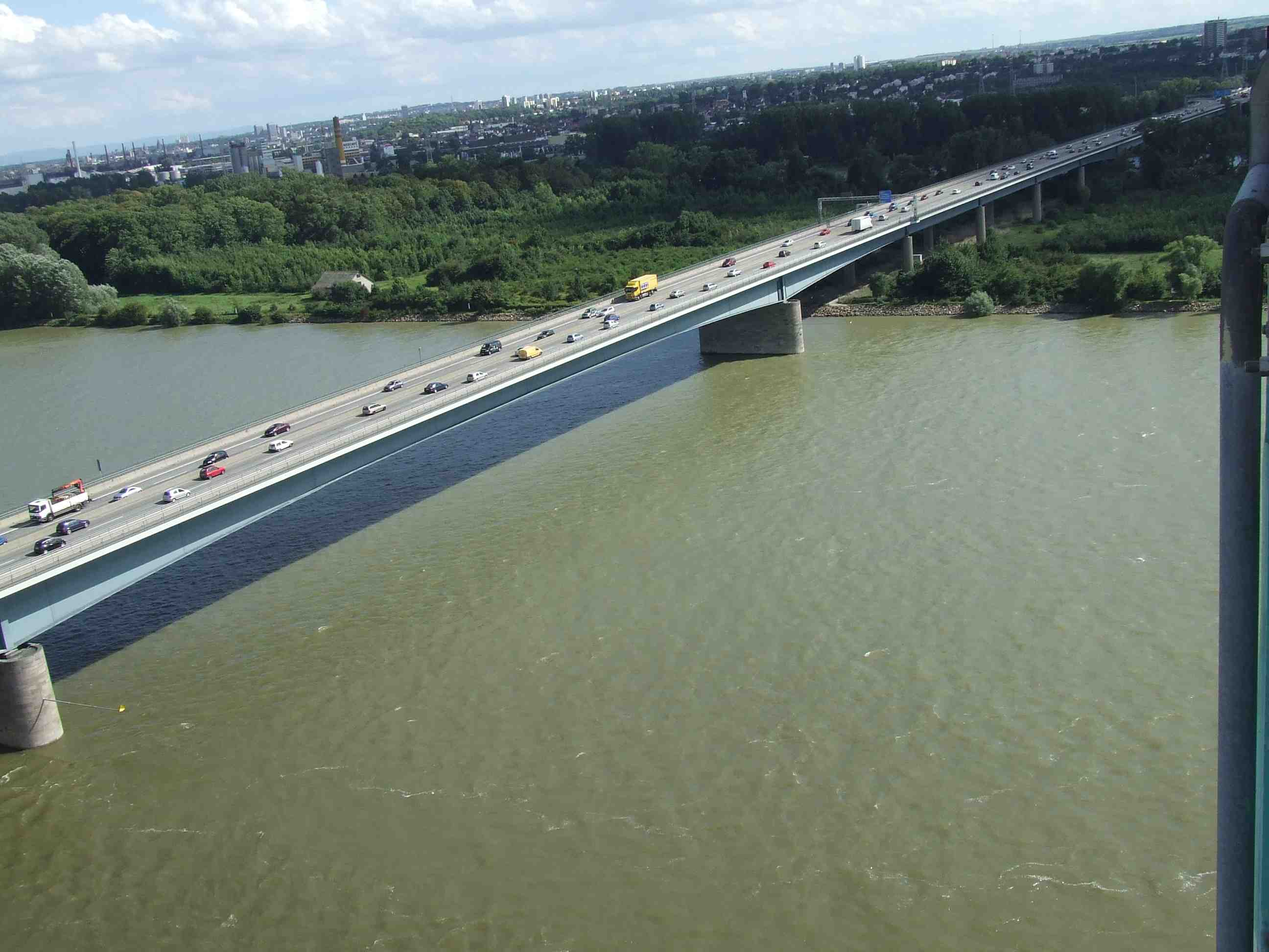 Bridges between Mainz and Wiesbaden, Mainz in the background.